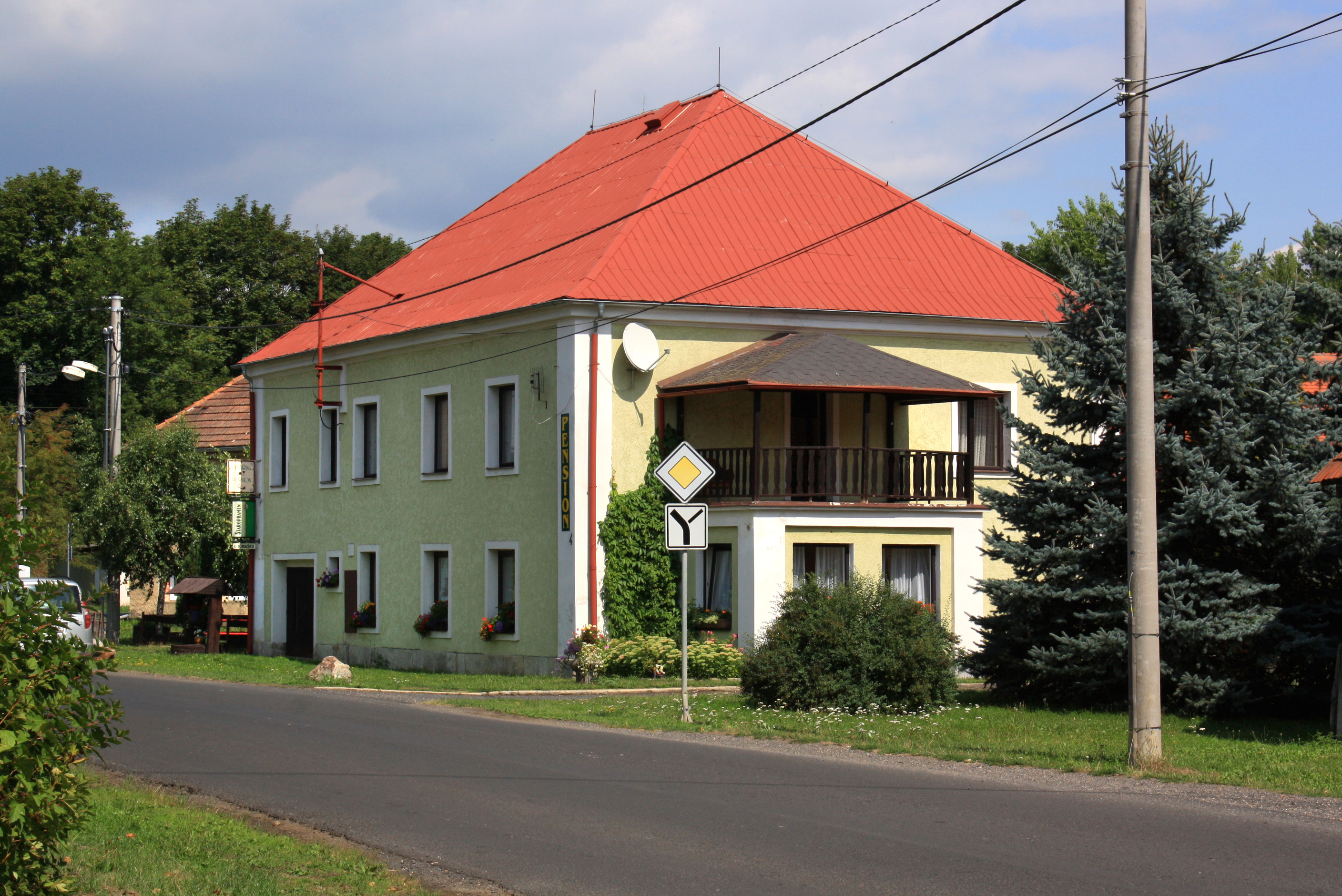 Pension in Nebanice, Czech Republic